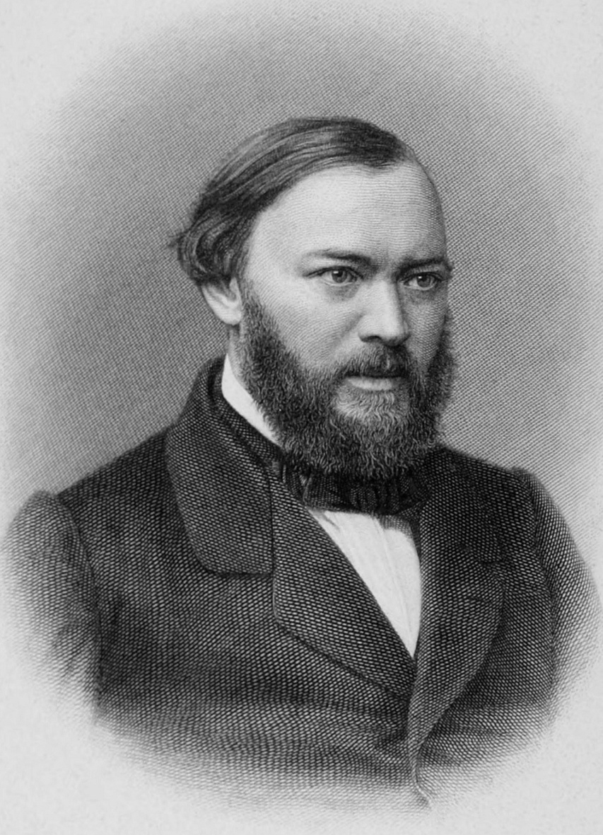 Alexander Ostrovsky